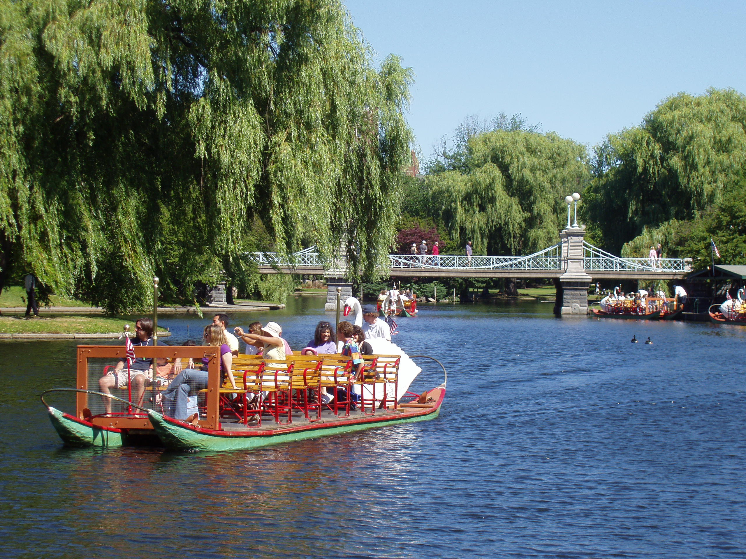 Swan Boat, Boston Public Garden, Boston, Massachusetts. Photograph taken by me, July 2005.